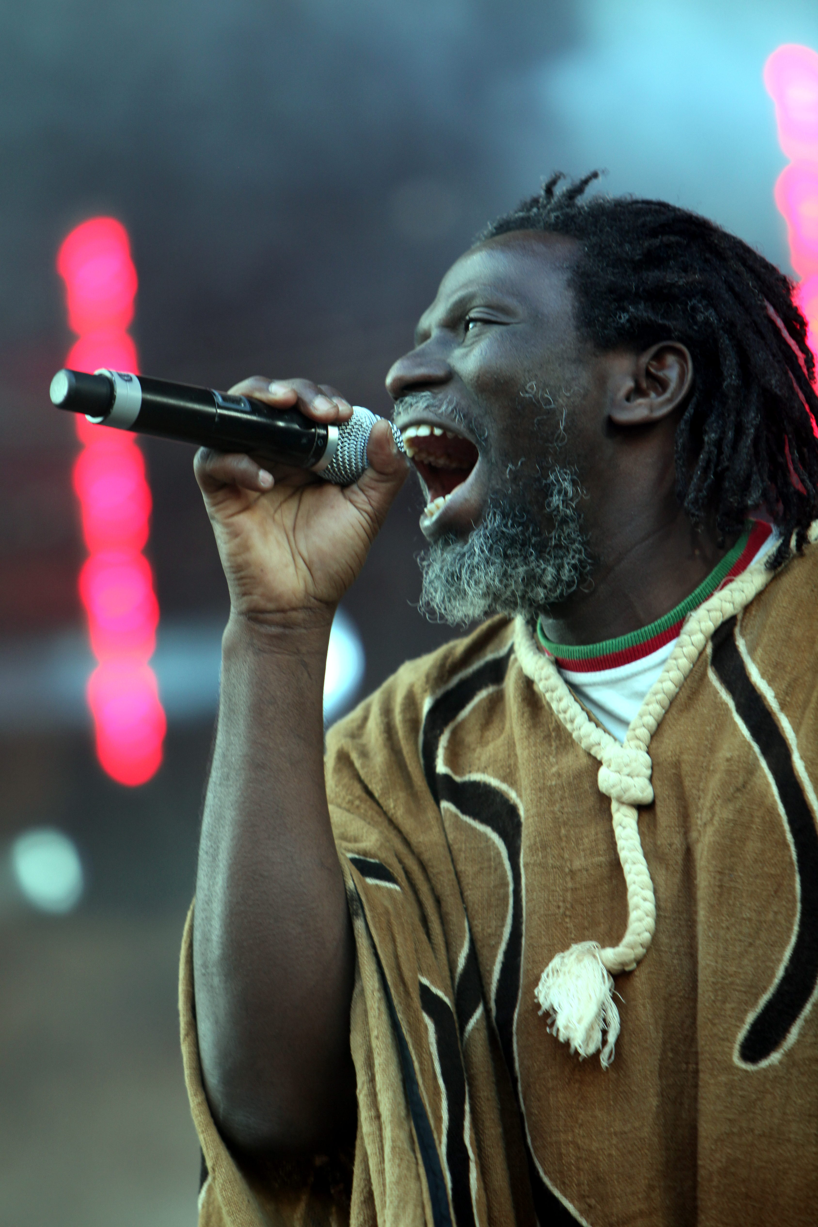 Tiken Jah Fakoly at the Eurockéennes de Belfort 2011 The making of this document was supported by Wikimedia CH. (Submit your project!) For all the files concerned, please see the category Supported by Wikimedia CH.